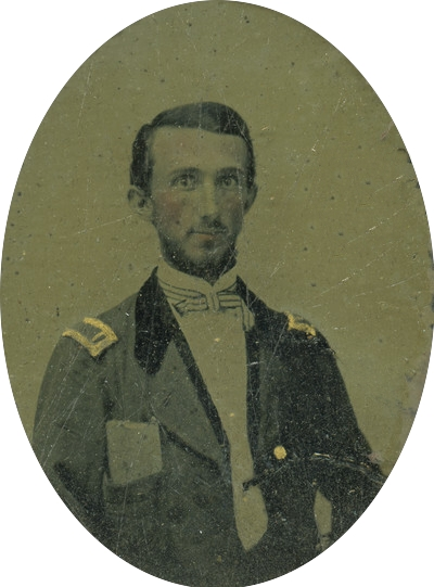 Wartime photograph of Maj. Giles Buckner Cooke, ninth-plate ambrotype with applied color, The American Civil War Museum